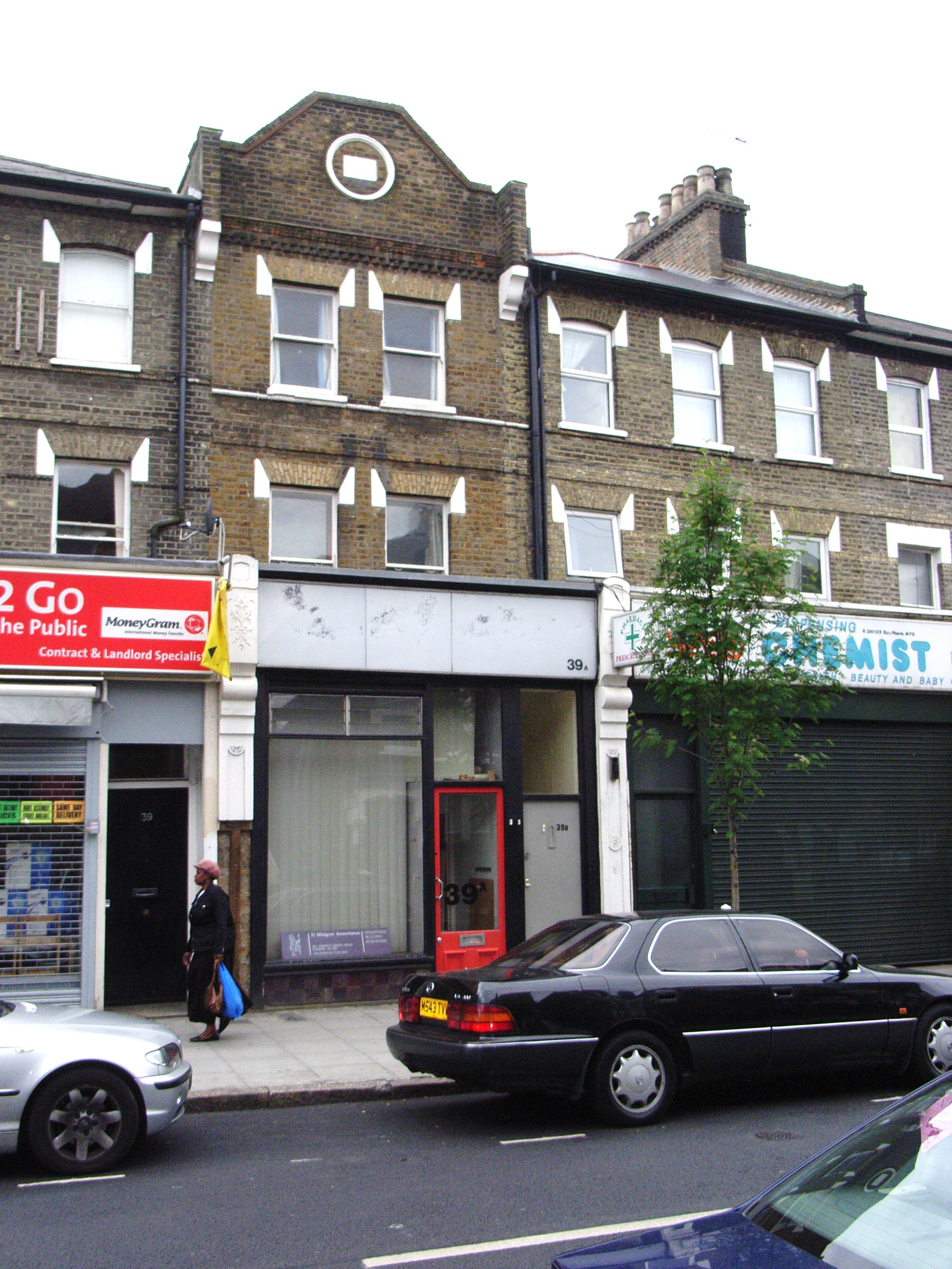 Former telephone exhange, 39a Stroud Green Road, London.